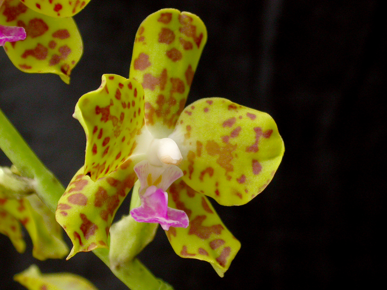 Hygrochilus parishii